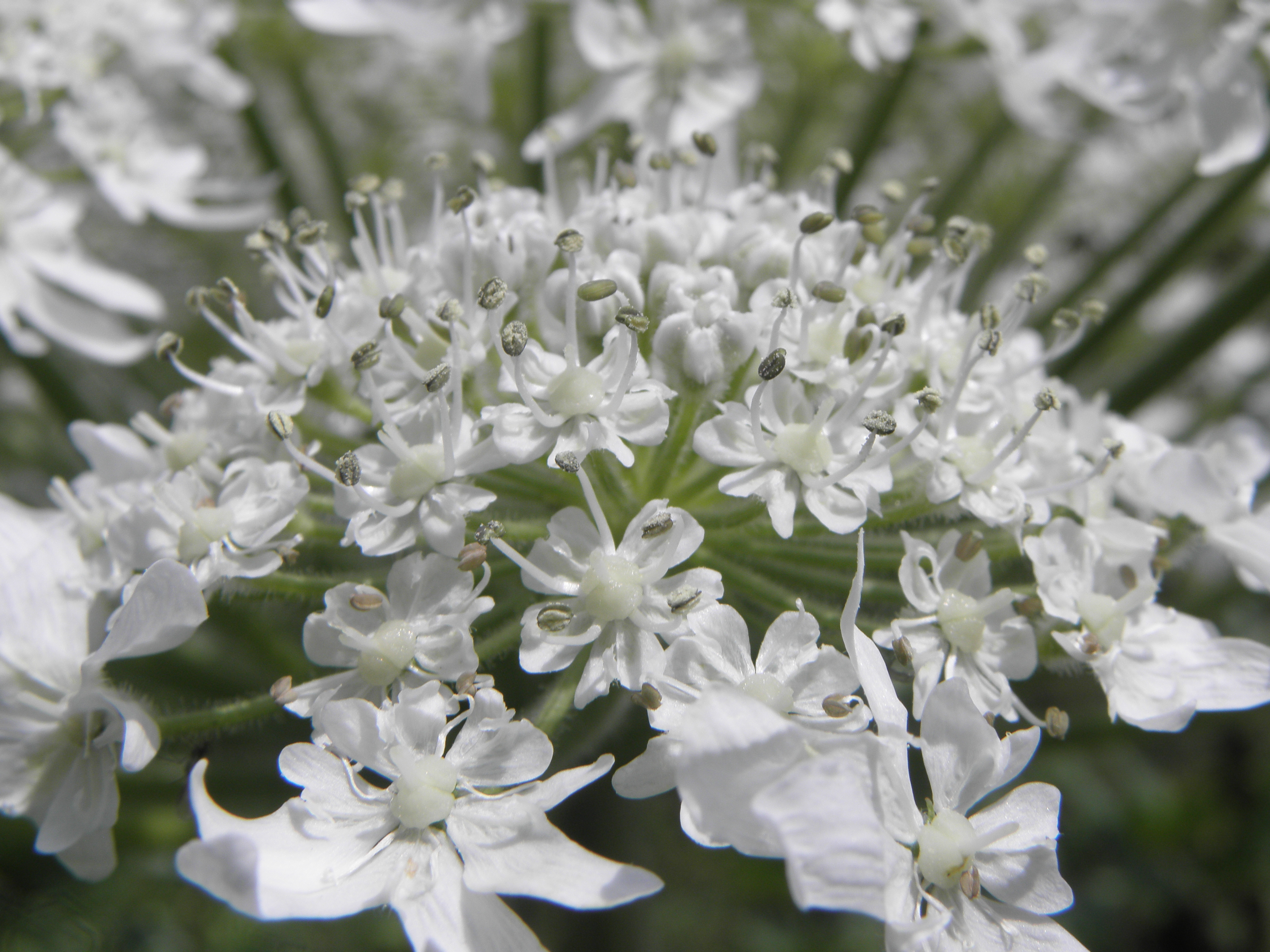 Giant hogweed